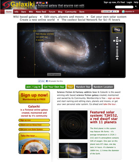 Screenshot of homepage